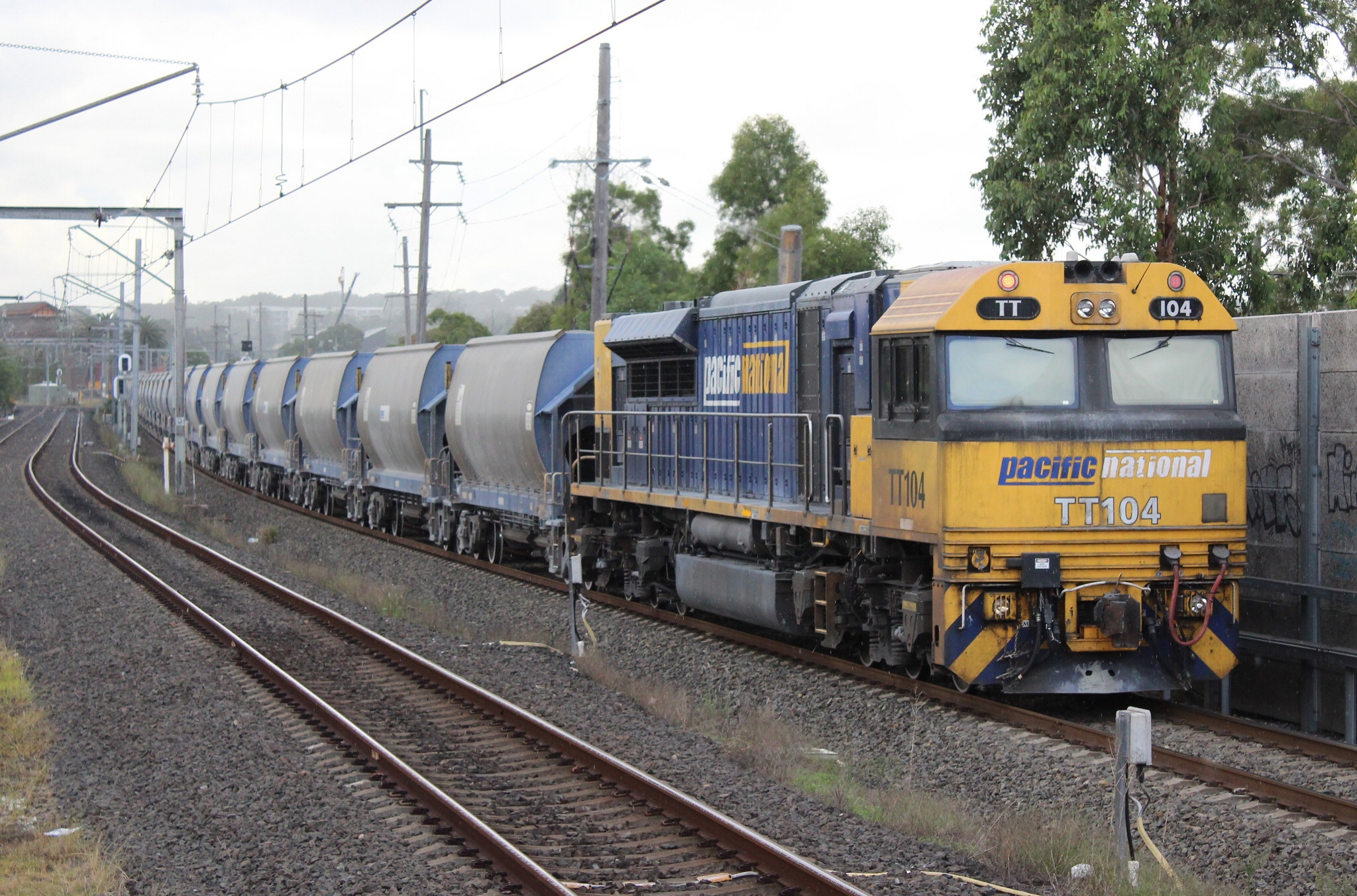 TT104 runs on a Minerals train in Sefton, New South Wales near Sydney, Australia.